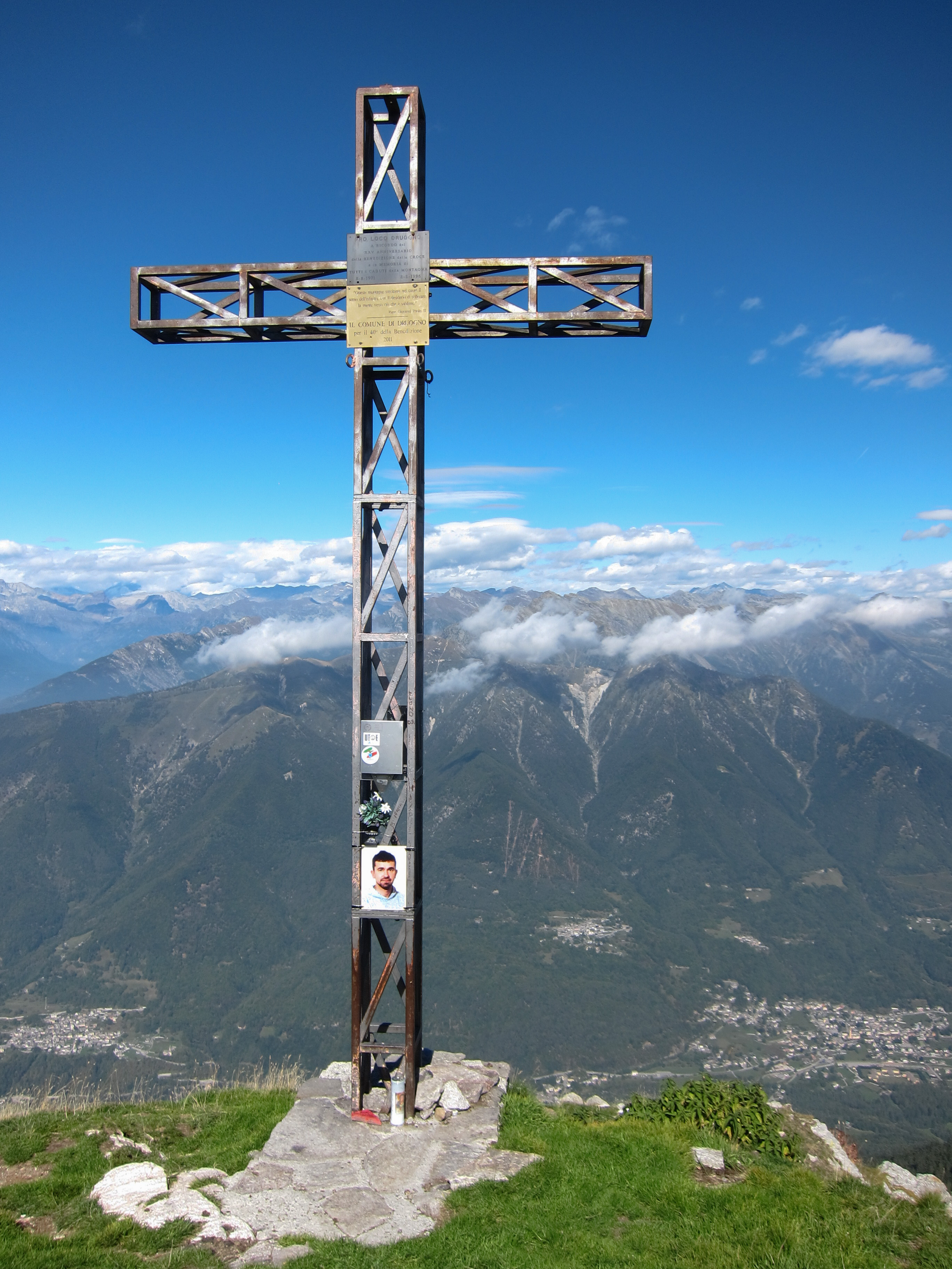 Metal cross on summit of the mount Pizzo Ragno (2.289 m.a.s.l.). In the background you can see the Val Vigezzo valley. Val Vigezzo is located in the province of VB in region Piedmont in Italy. Picture taken on the 23rd of september 2018.